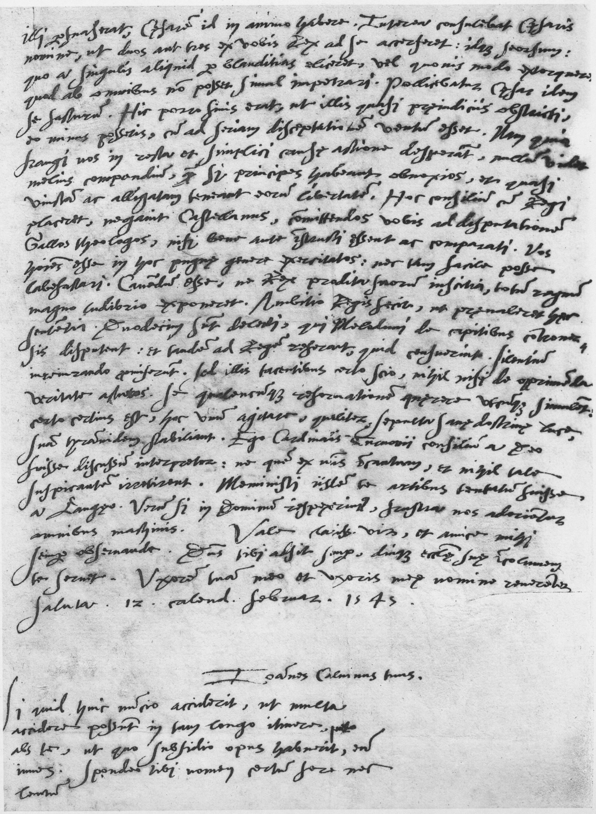 Part of a letter of John Calvin to Philip Melanchthon.